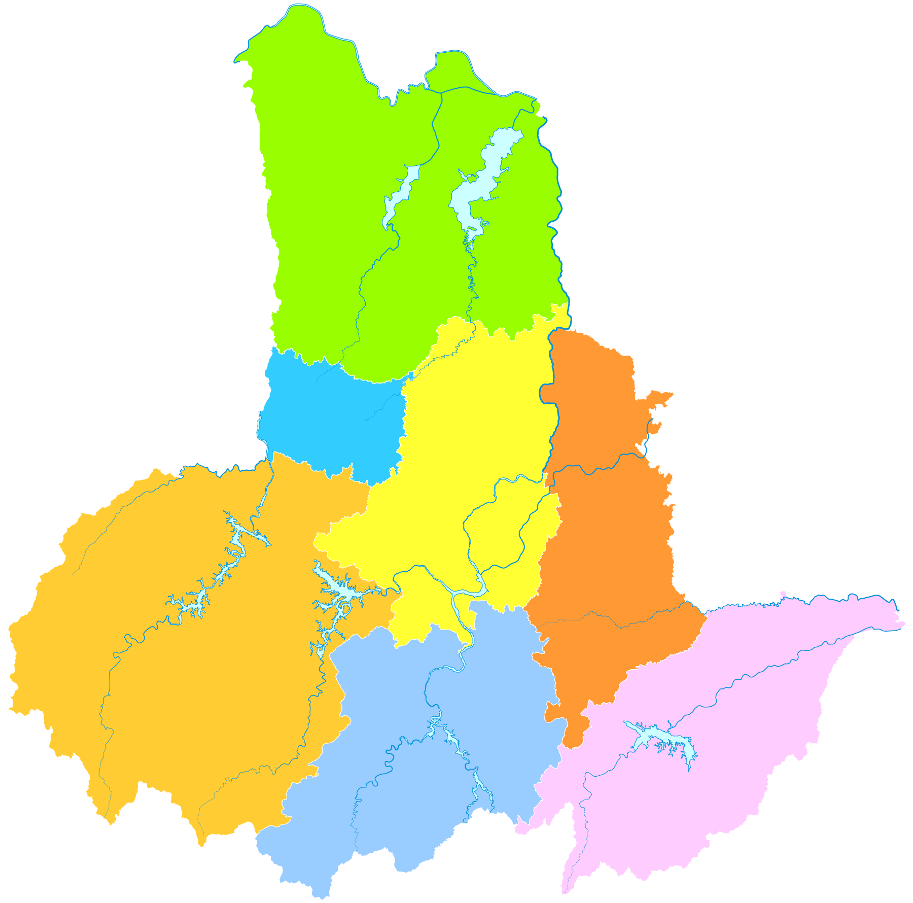 administrative divisions of Lu'an City, Anhui, China